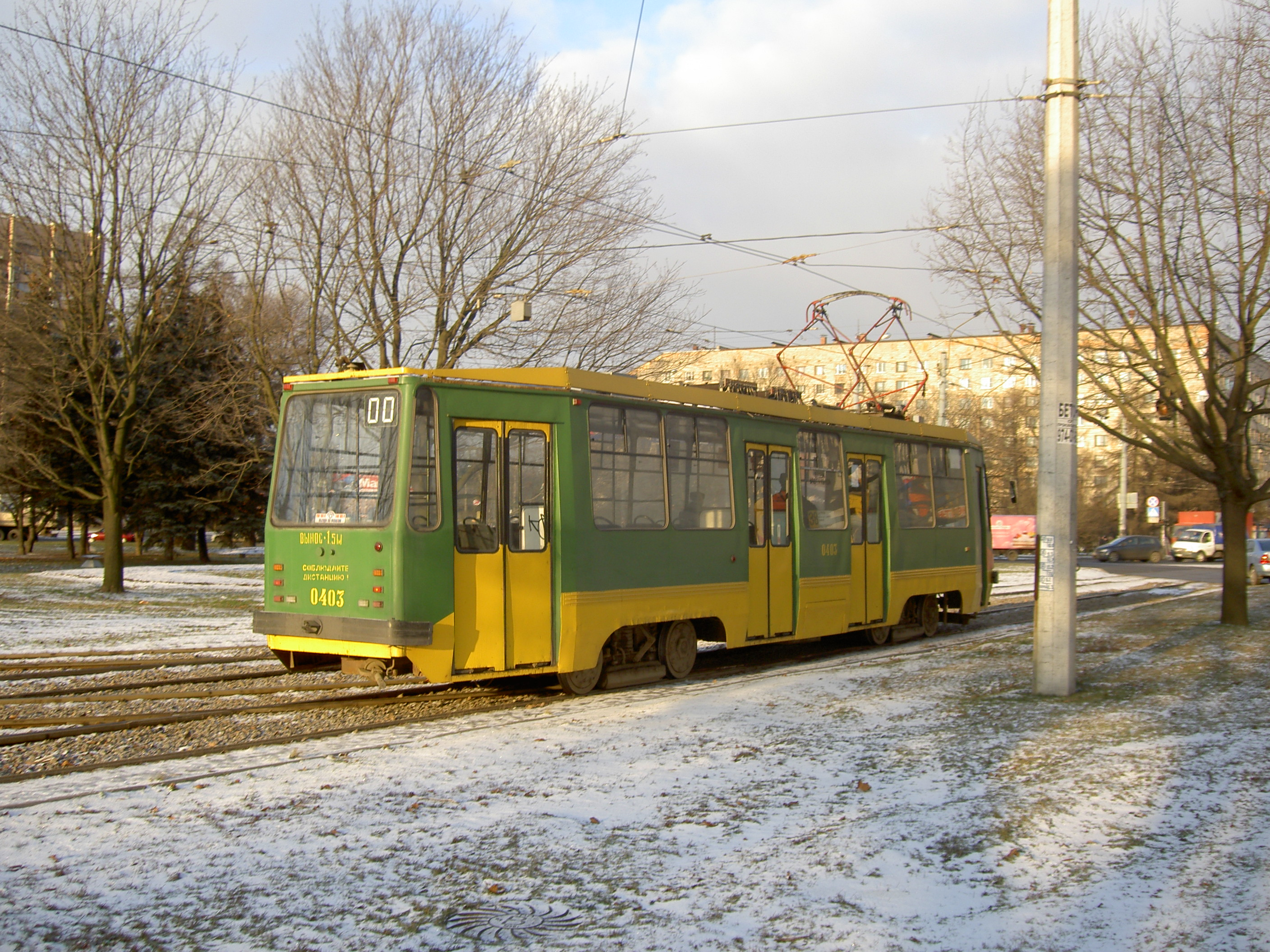 LM99K tram at Muzhestva square in Saint Petersburg